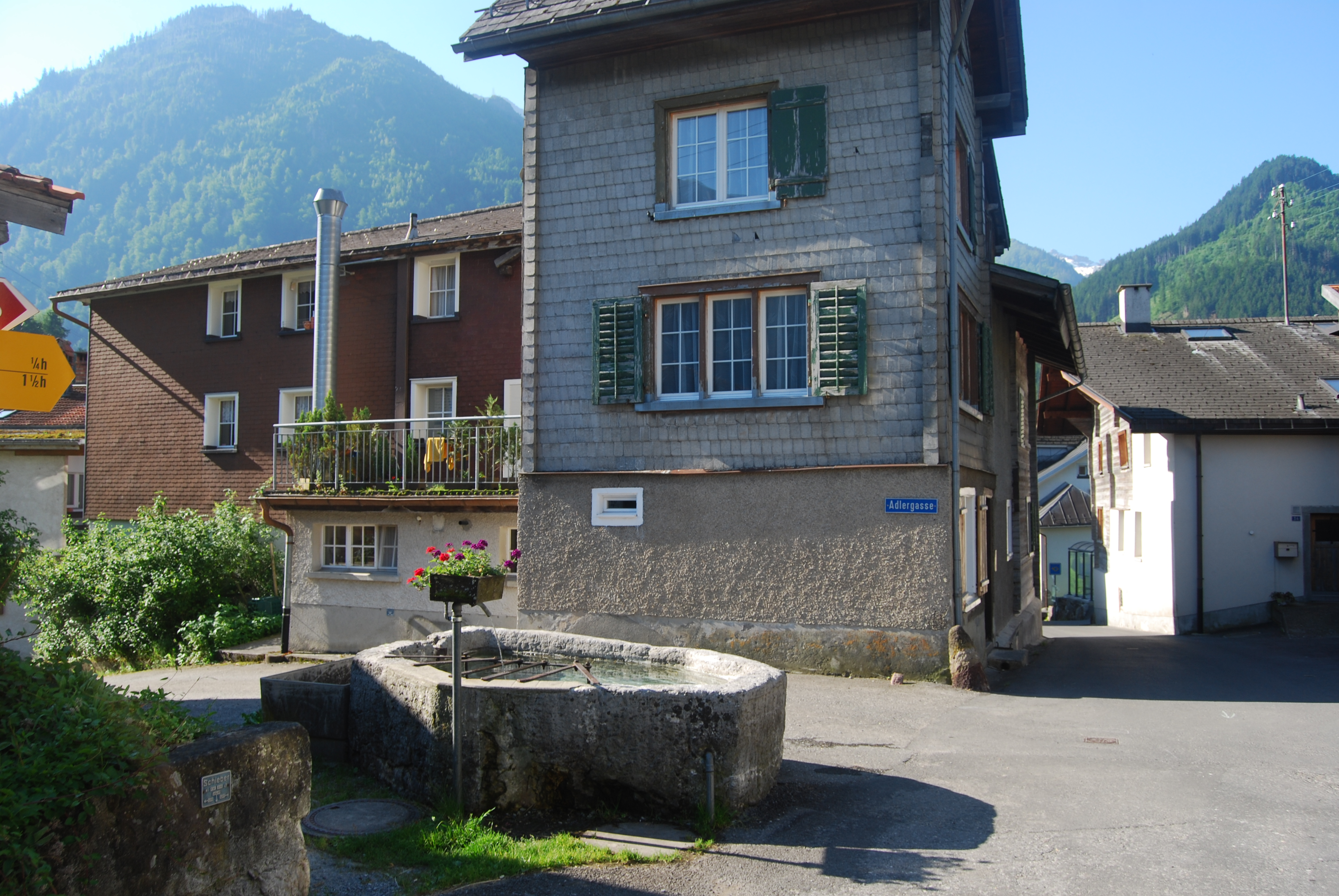 Sool, canton of Glarus, Switzerland